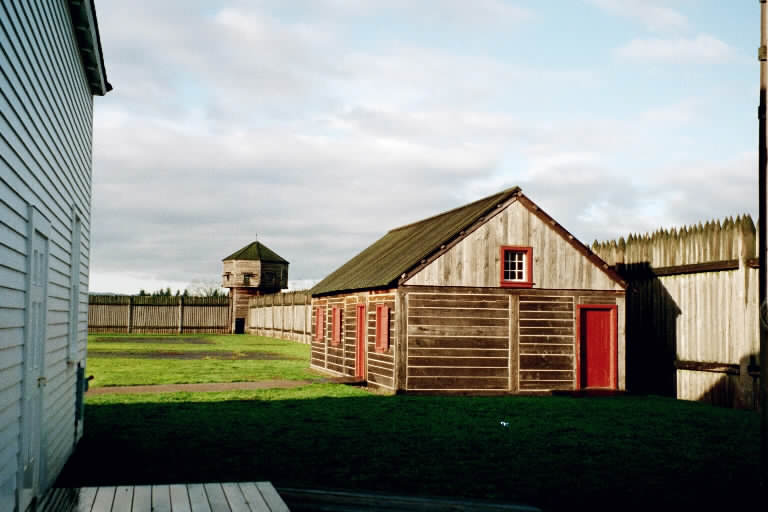 historic fort vancouver, washington state.